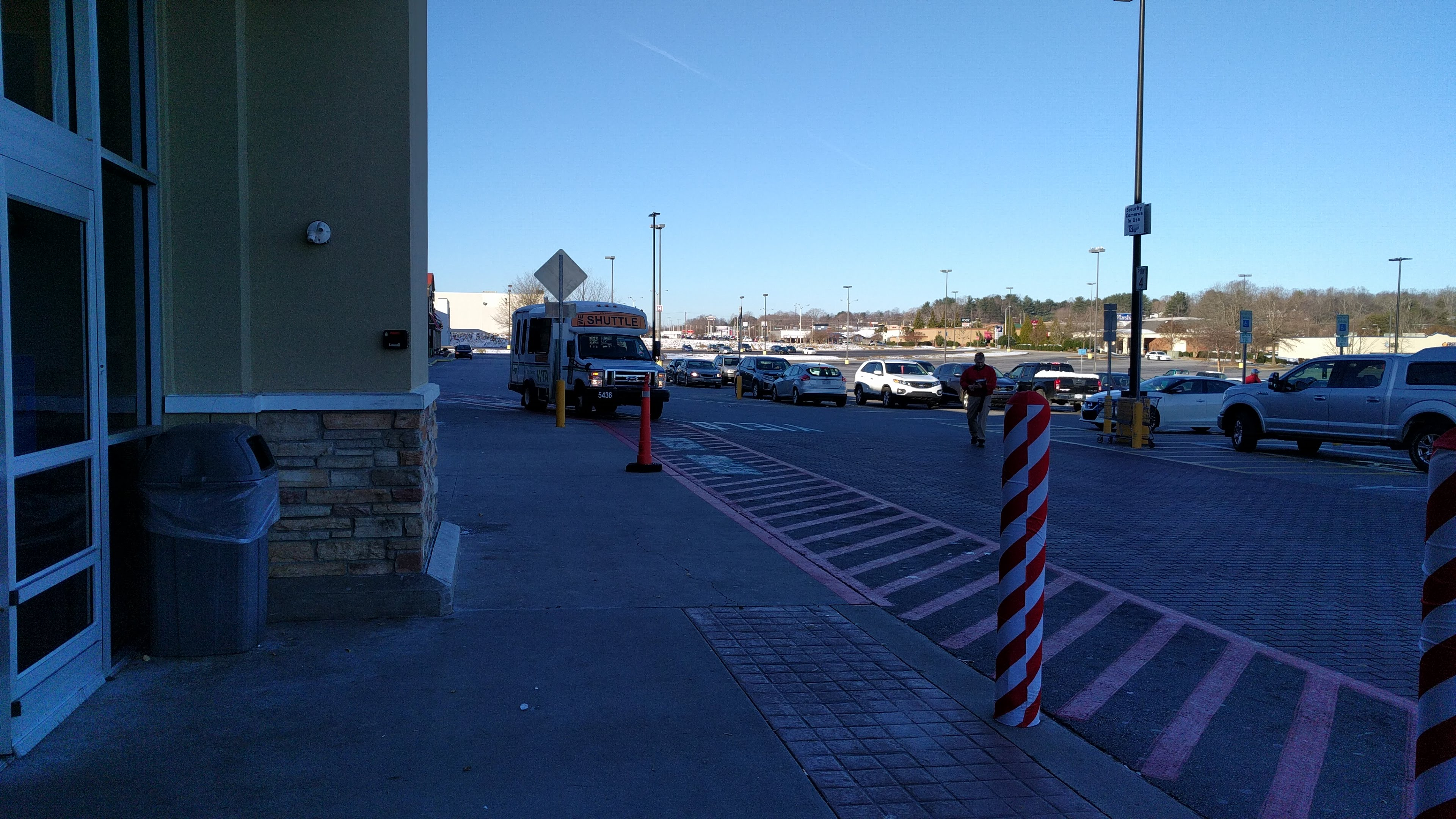 A shuttle bus is parked outside of WalMart.